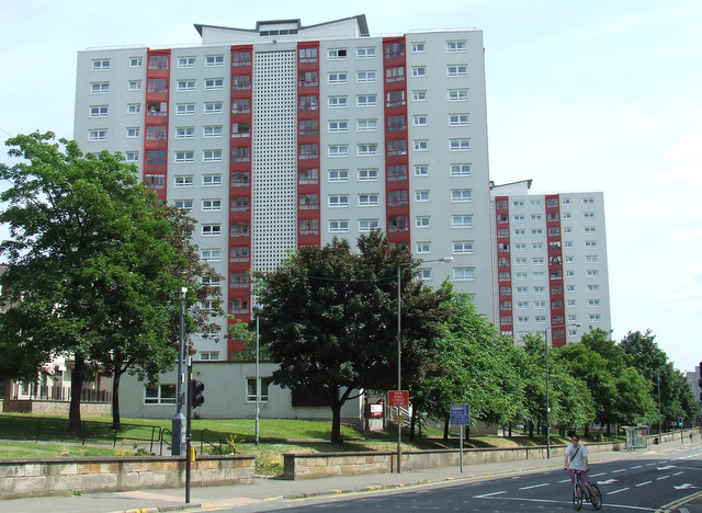 Drygate